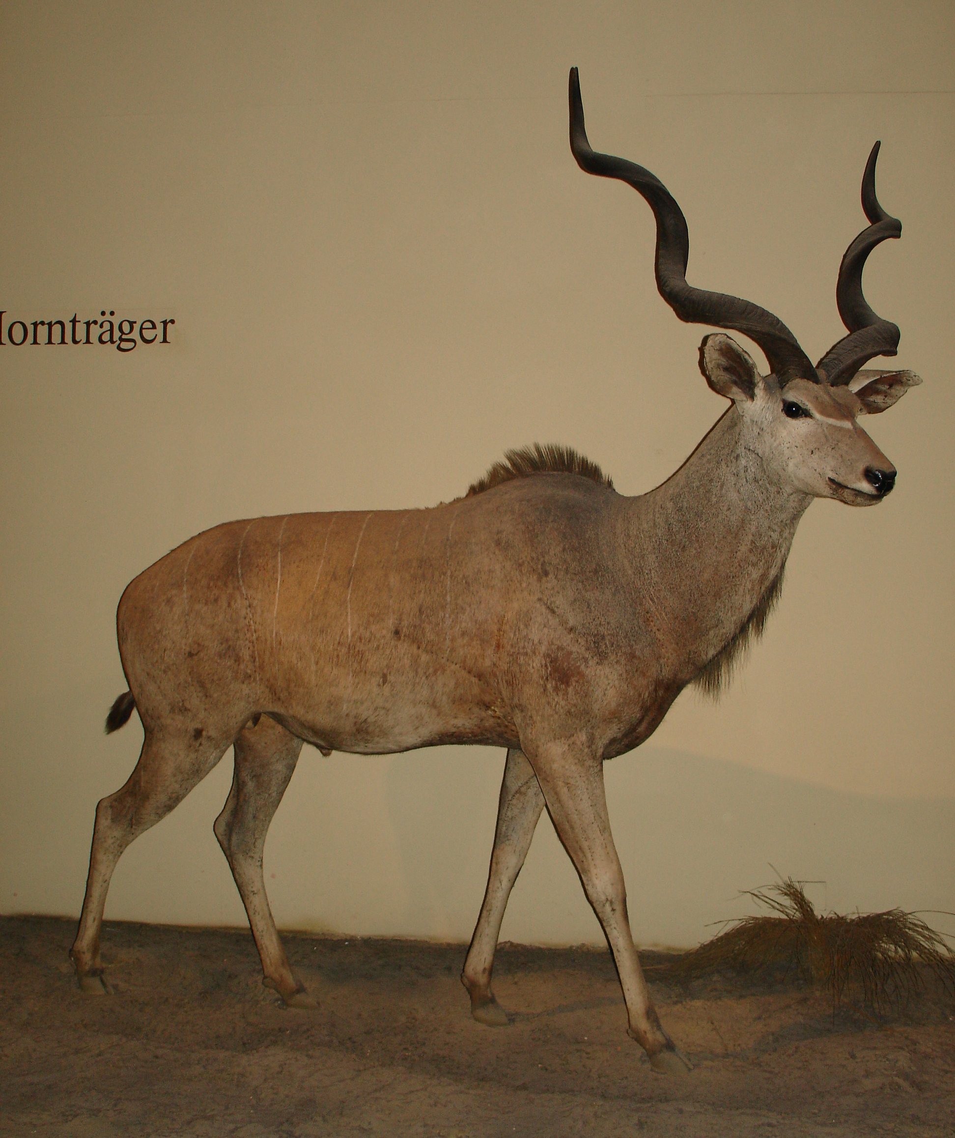 Tragelaphus strepsiceros - stuffed. The exhibit from the Museum of Natural History in Berlin (Museum für Naturkunde)